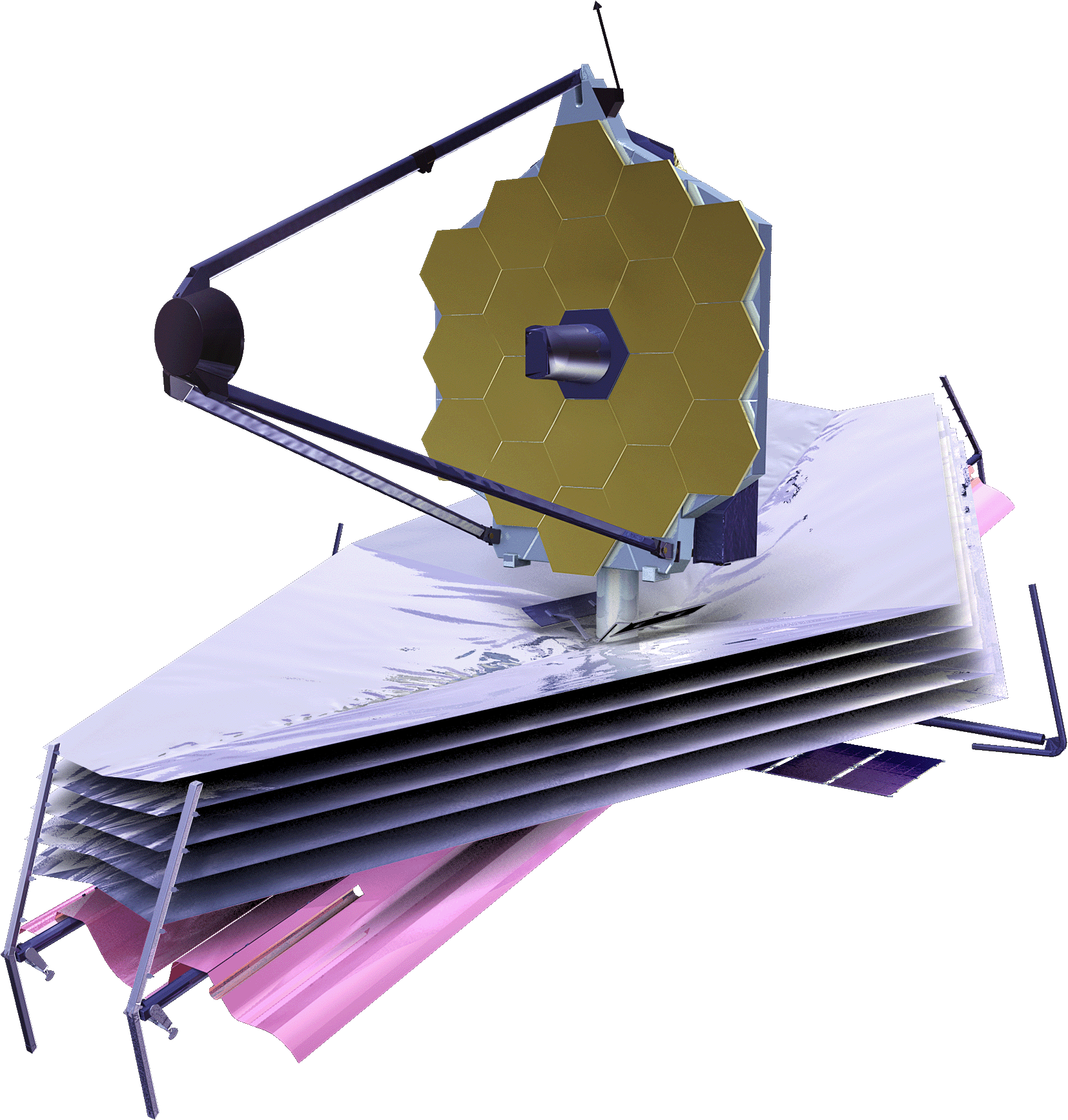 Illustration of the James Webb Space Telescope on a transparent background.